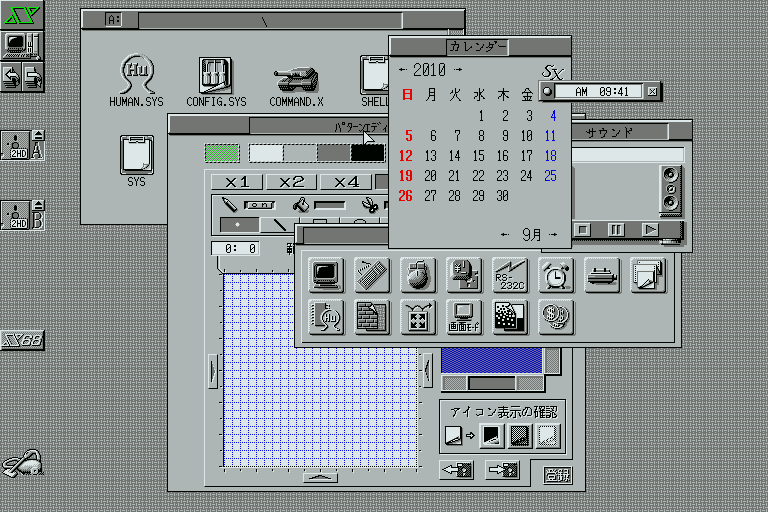 Screenshot of sx-window system on the X68000 computer, version 3.0/ 3.1